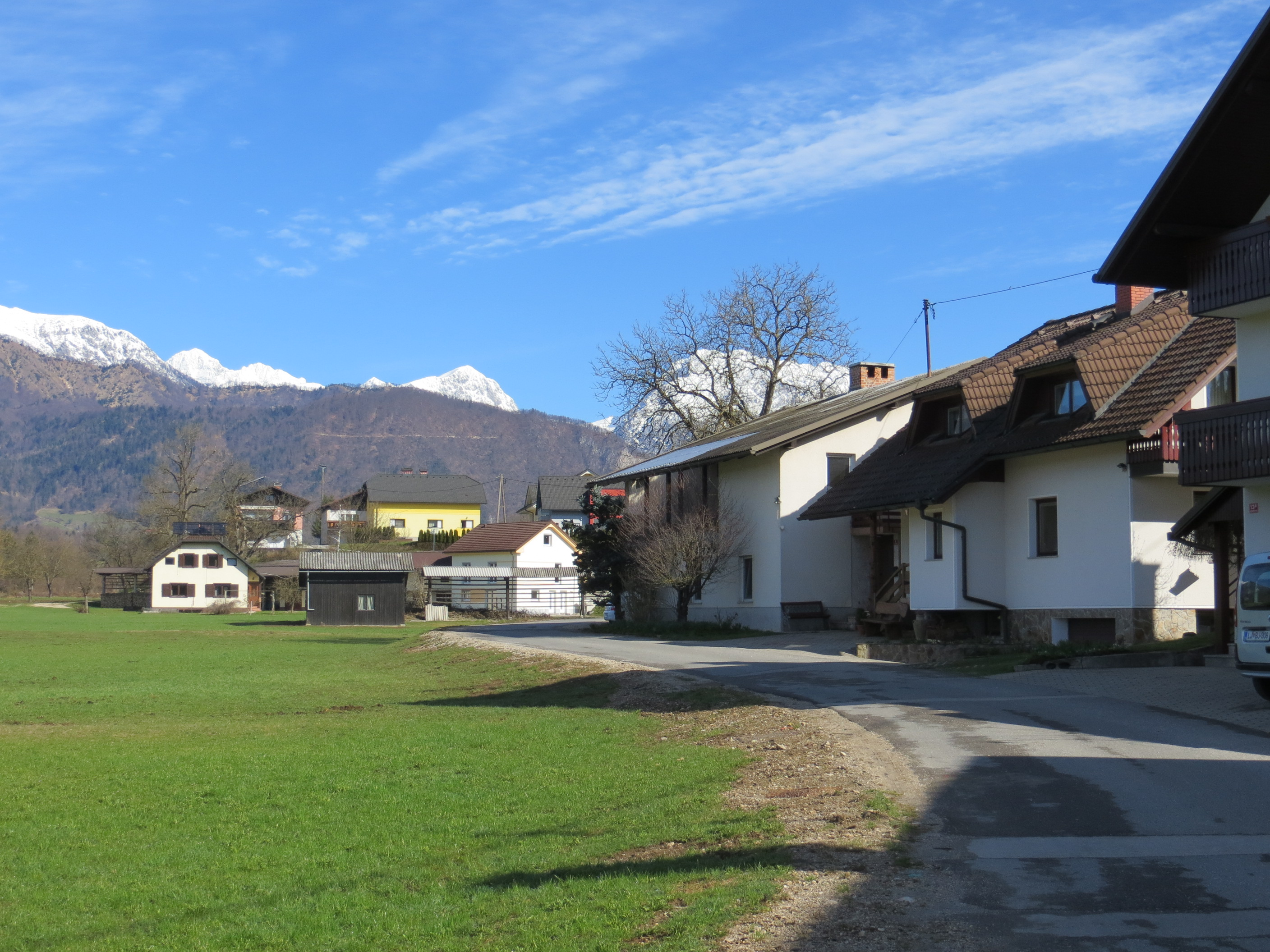 Jeranovo, Municipality of Kamnik, Slovenia